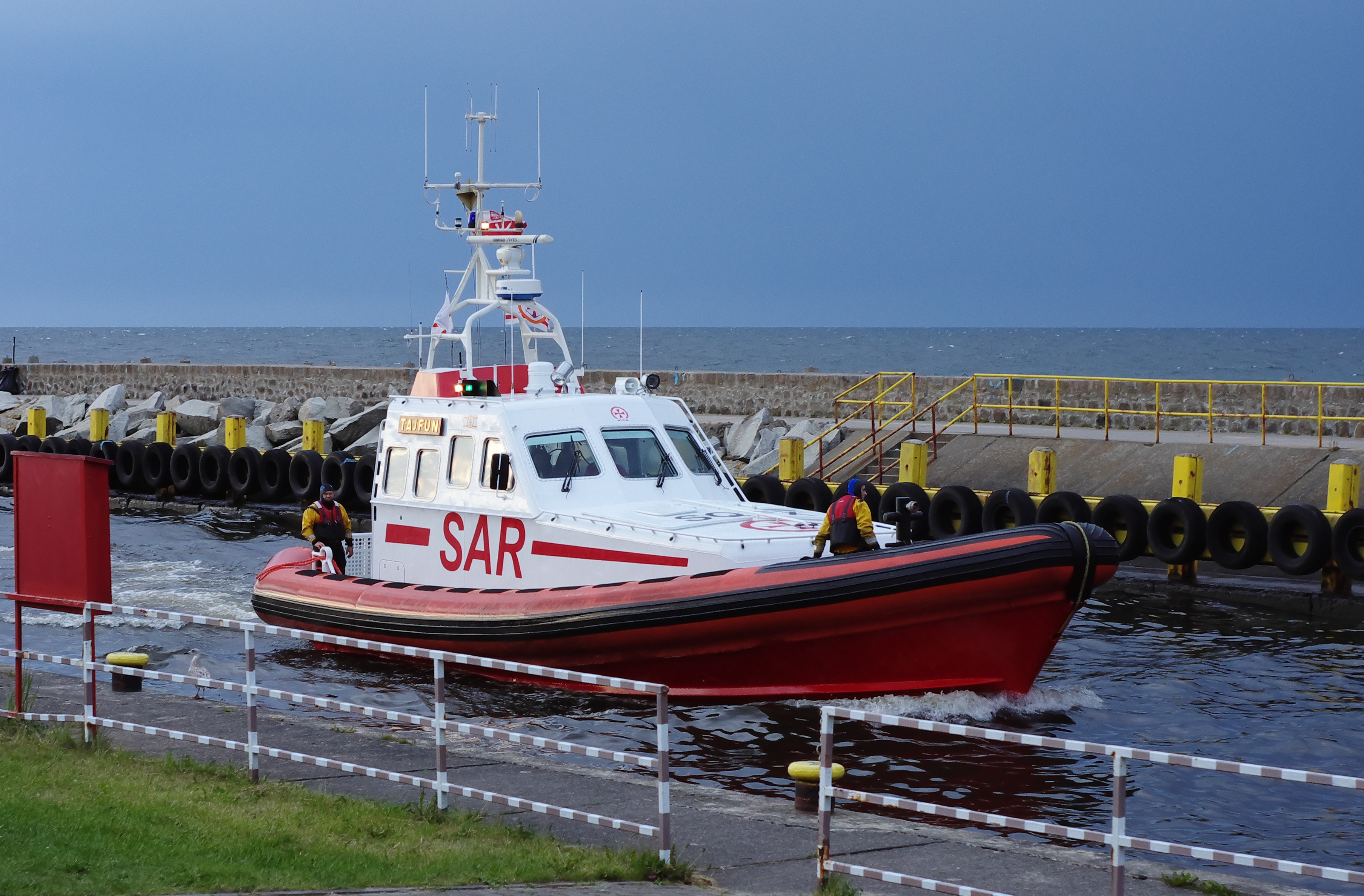 Polish Search-And-Rescue (SAR) ship "Tajfun" arriving to Darłowo